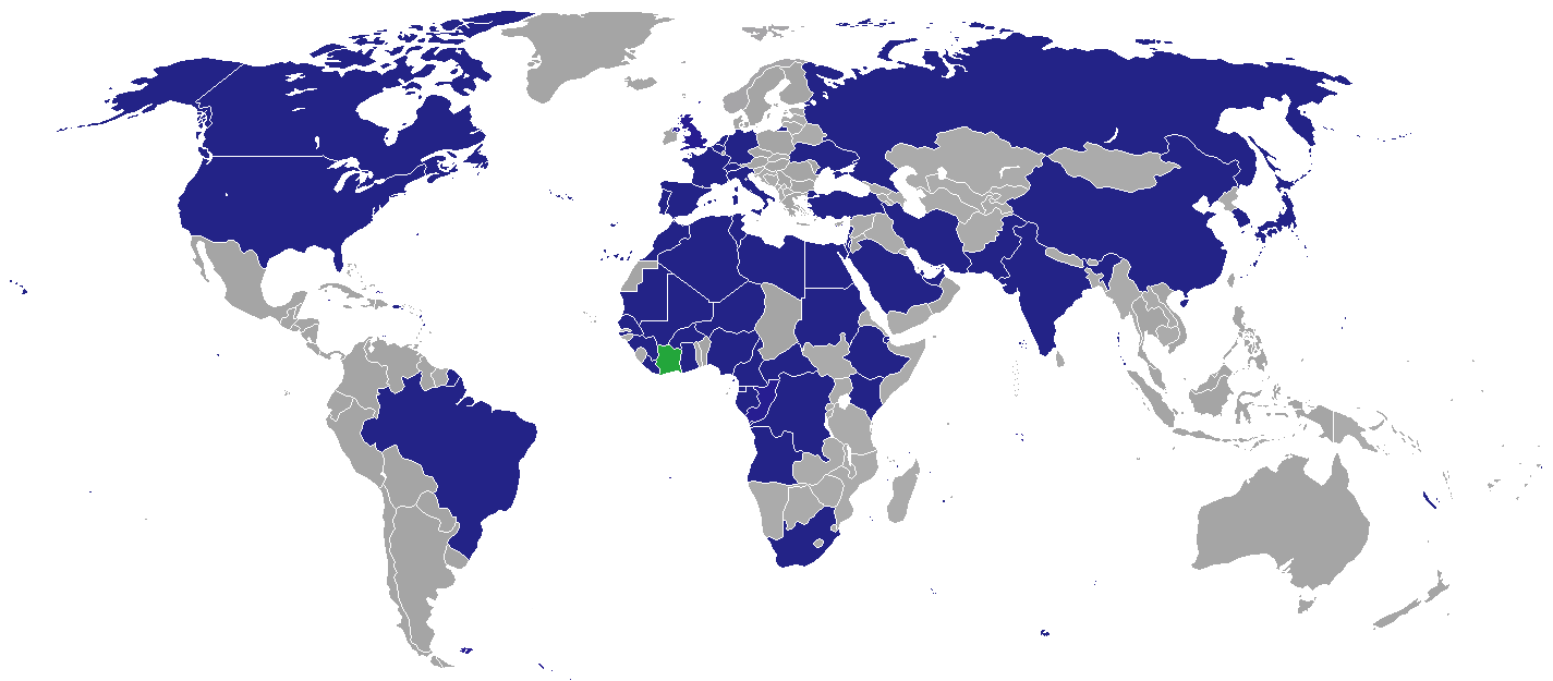 Map of diplomatic missions in Cote d'Ivoire